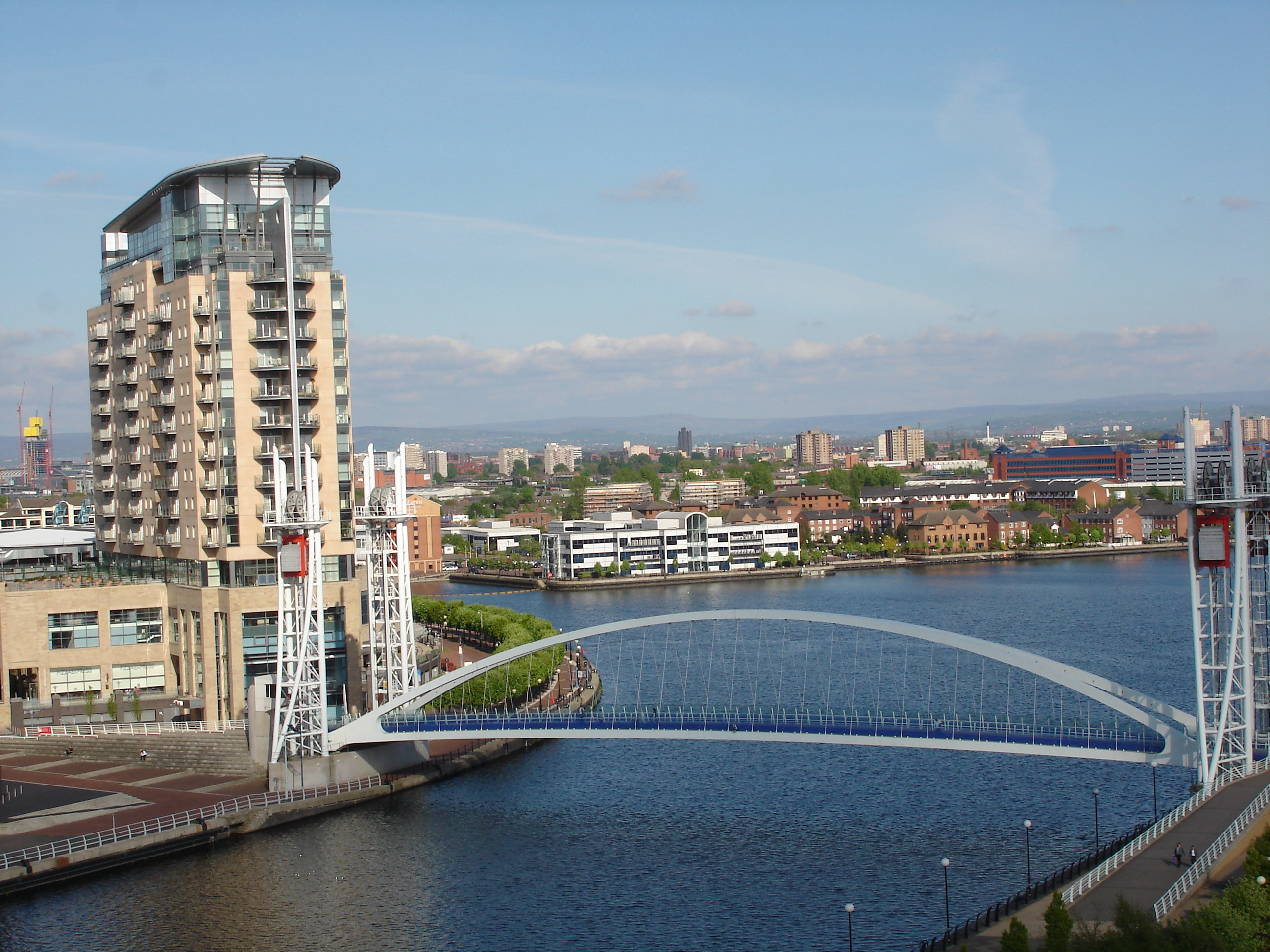 Salford Quays from Imperial War Museum North Air Shard